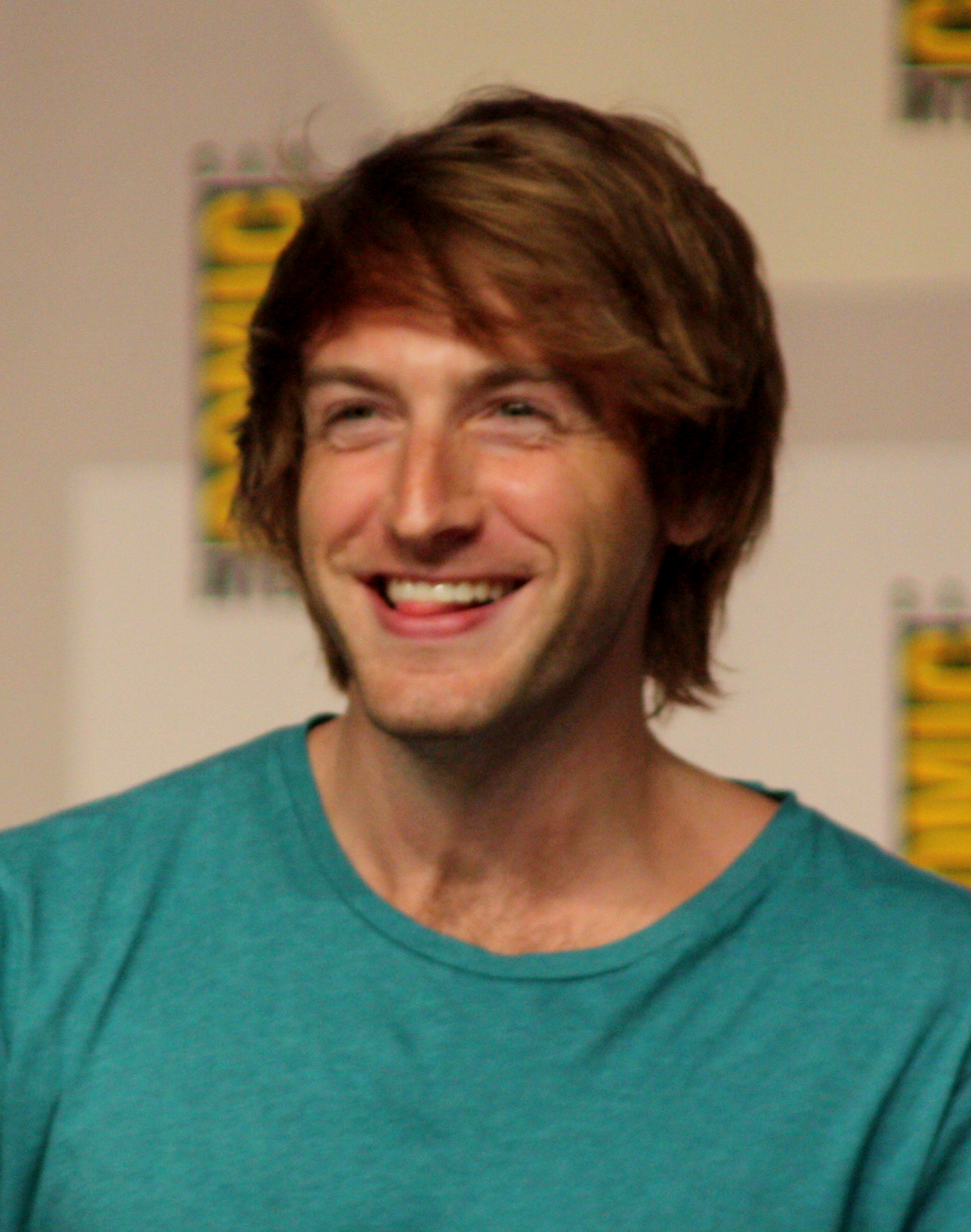 Fran Kranz at the 2009 Comic Con in San Diego.